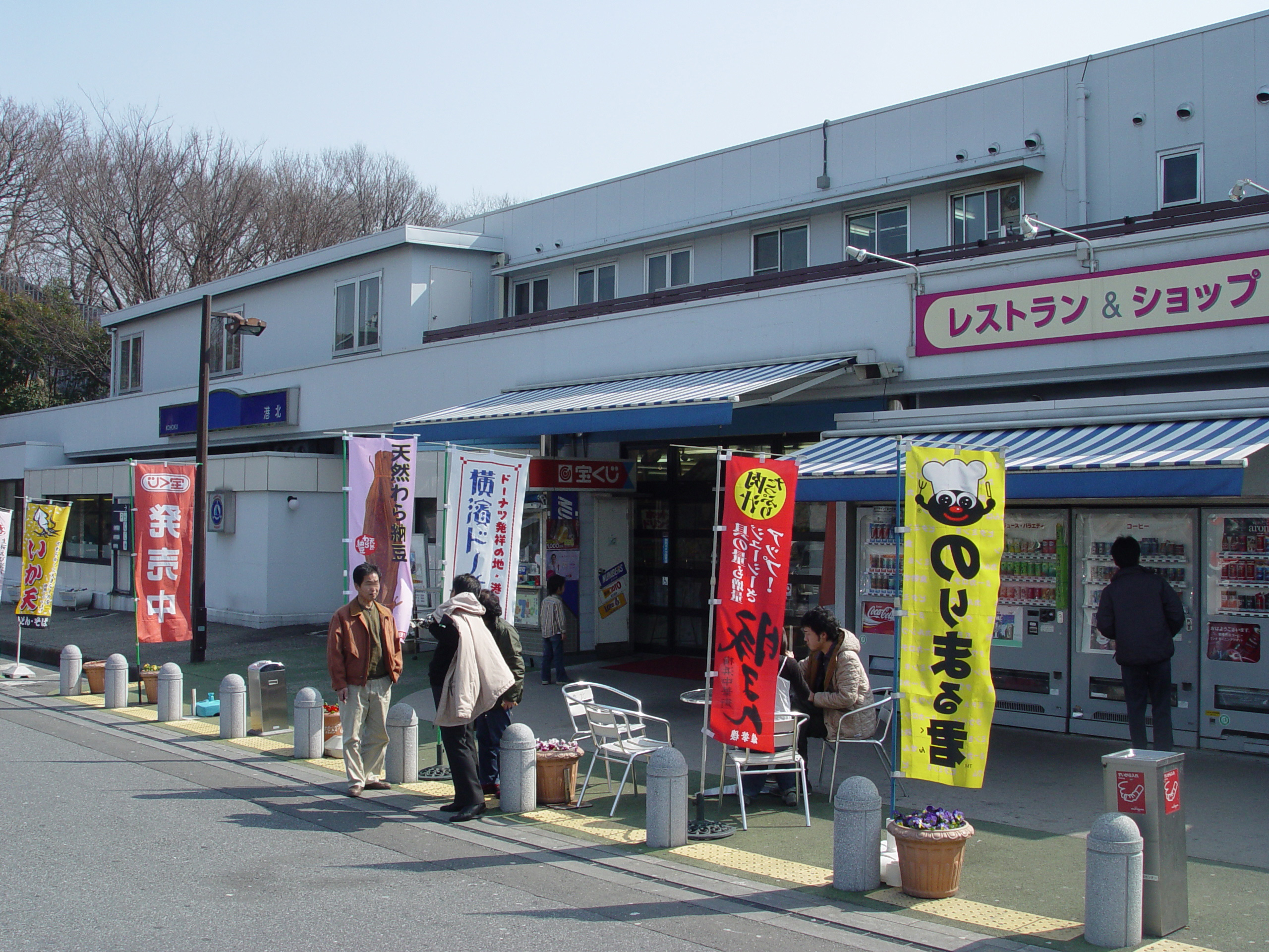 Kohoku Parking Area on the Tomei Expressway outbound line for Nagoya